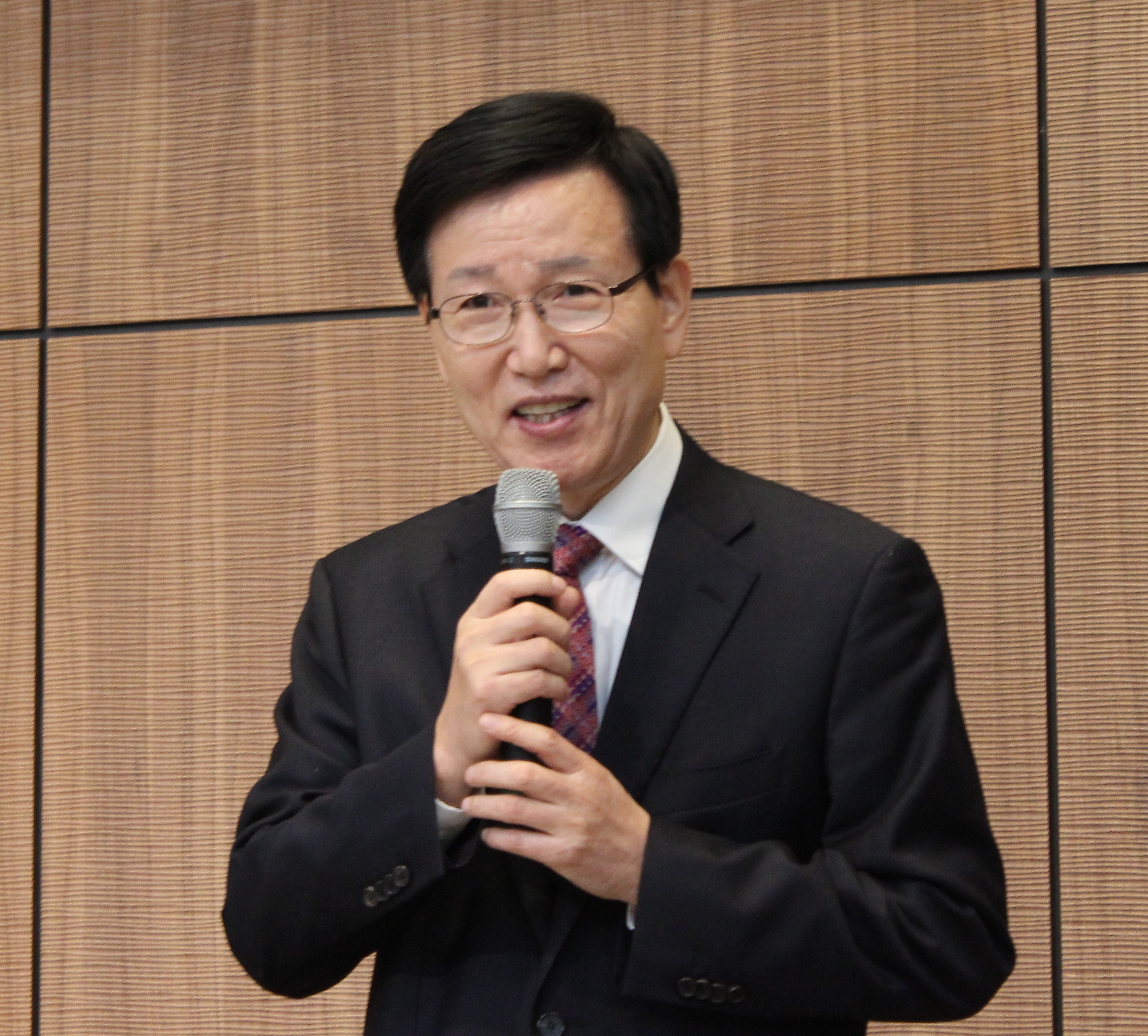 Dr. Deok-Kyo Oh speaking in the Society of Presbterian Theology in 17th March 2018